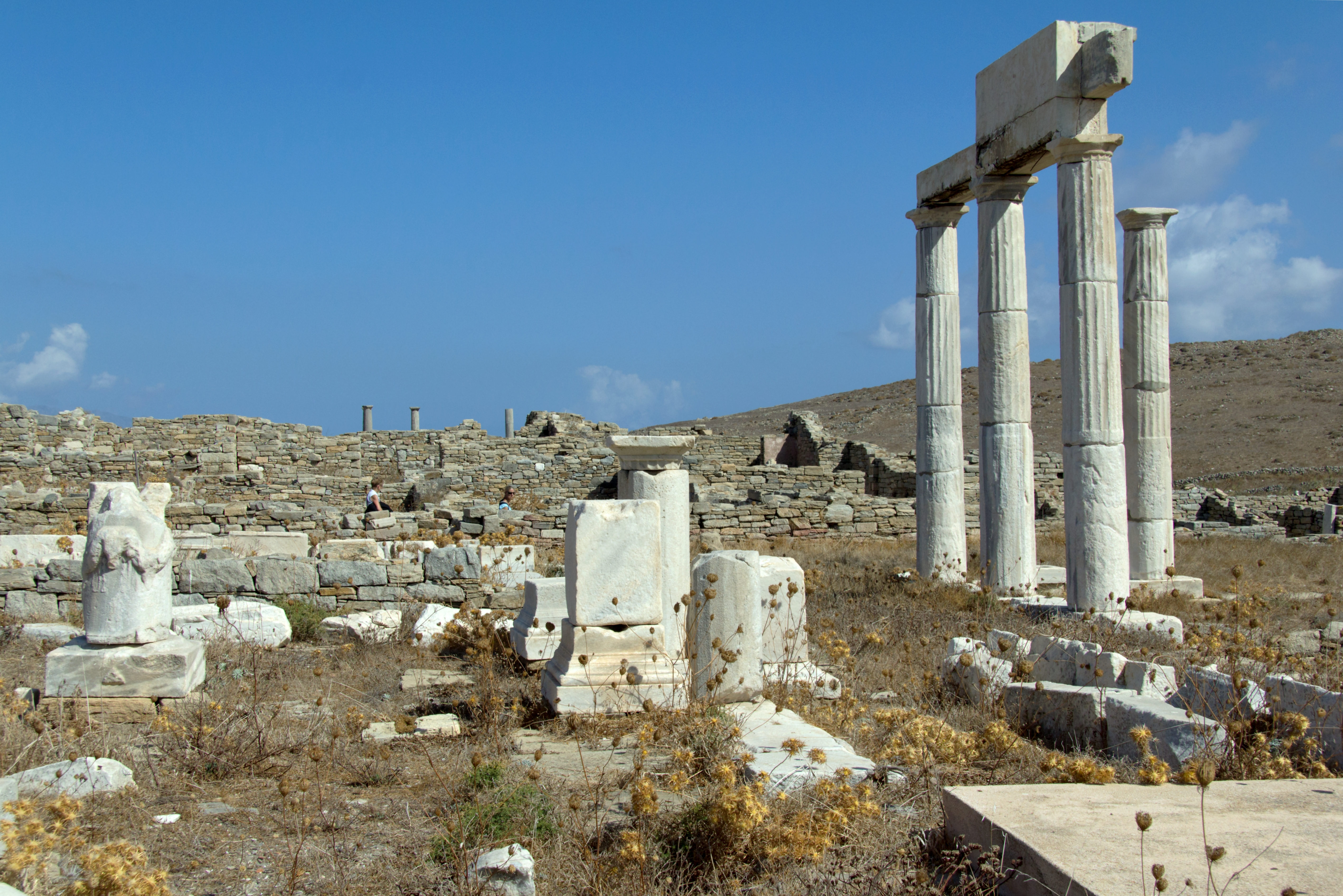 Establishment of the Poseidoniasts on Delos. Hellenistic, 150 - 100 BC.